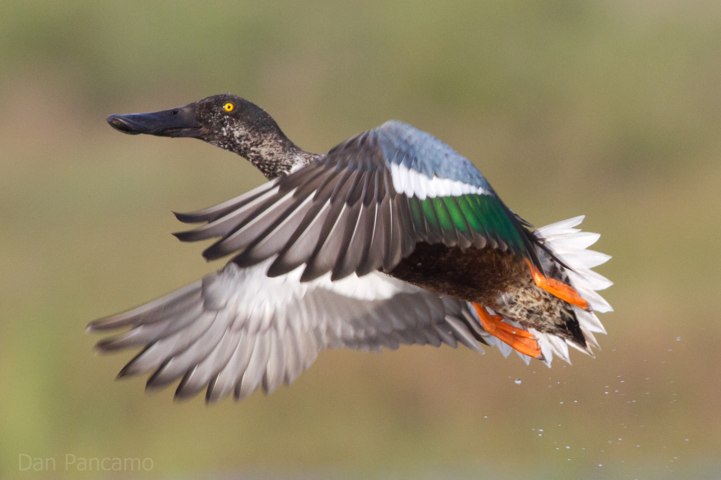 Northern Shoveler in Brazoria National Wildlife Refudge